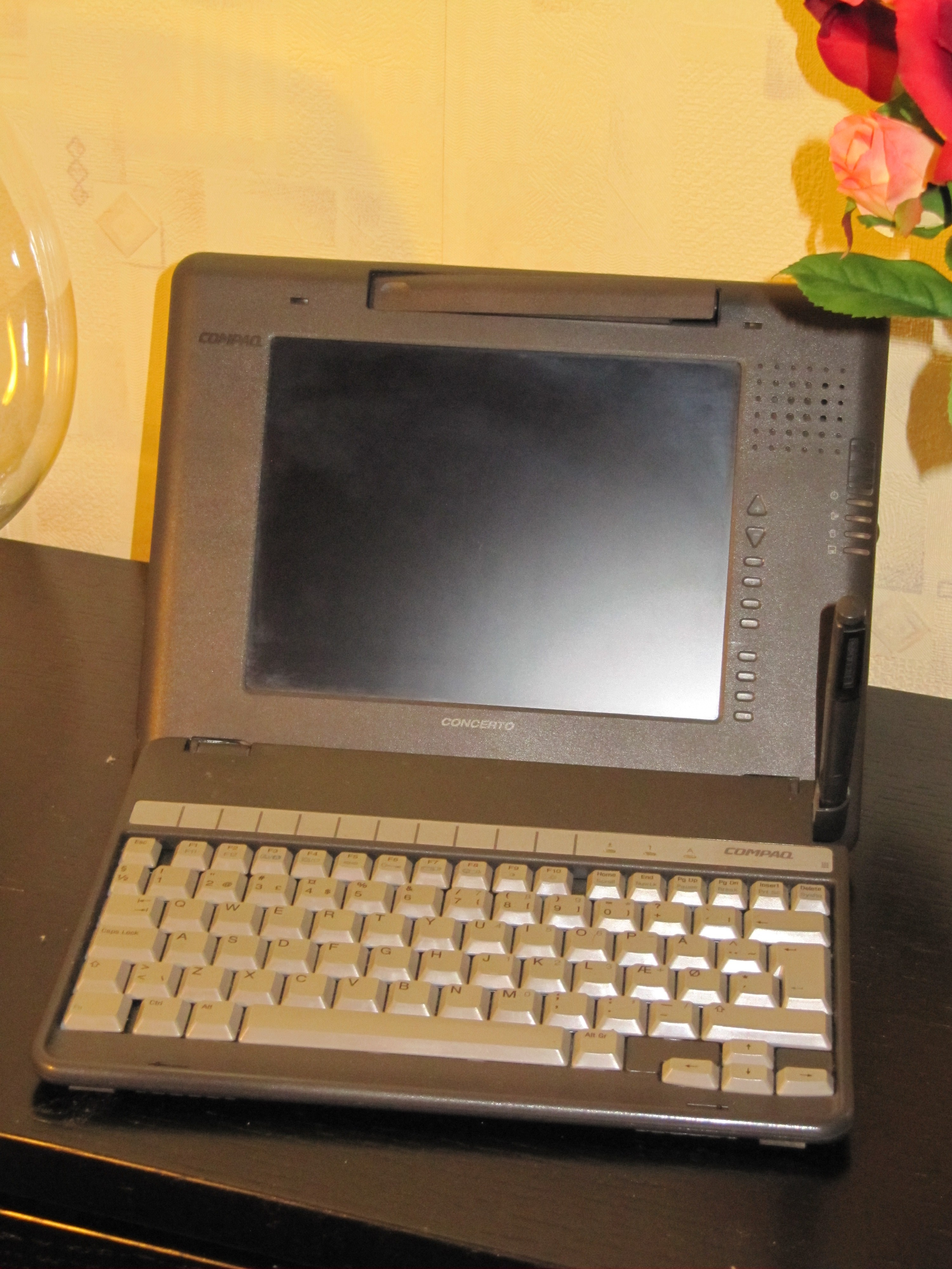 Compaq Concerto 4/25 laptop / Tablet PC Shown in laptop configuration: with attached keyboard, pen in holder and open pen compartment above the screen.